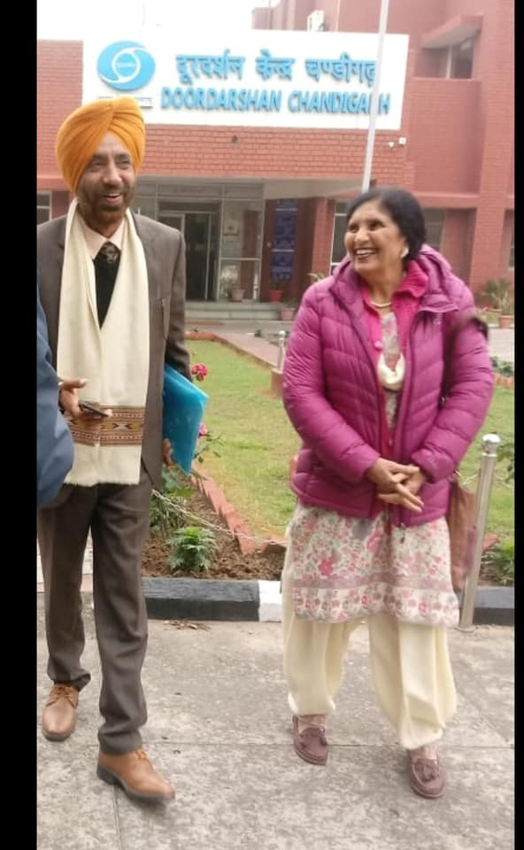 Gurminder Sidhu and Harvinder Singh Punjabi language poets after a TV programme on Chandigarh Doordarshan , Chanadigarh